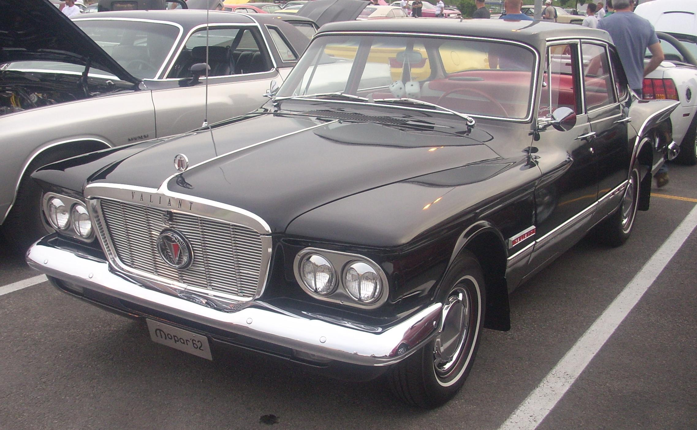 1962 Plymouth Valiant photographed in Laval, Quebec, Canada at Centropolis Laval.